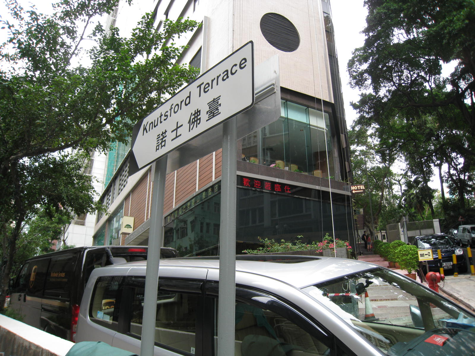 Street Sign of Knutsford Terrace, Tsim Sha Tsui, Hong Kong